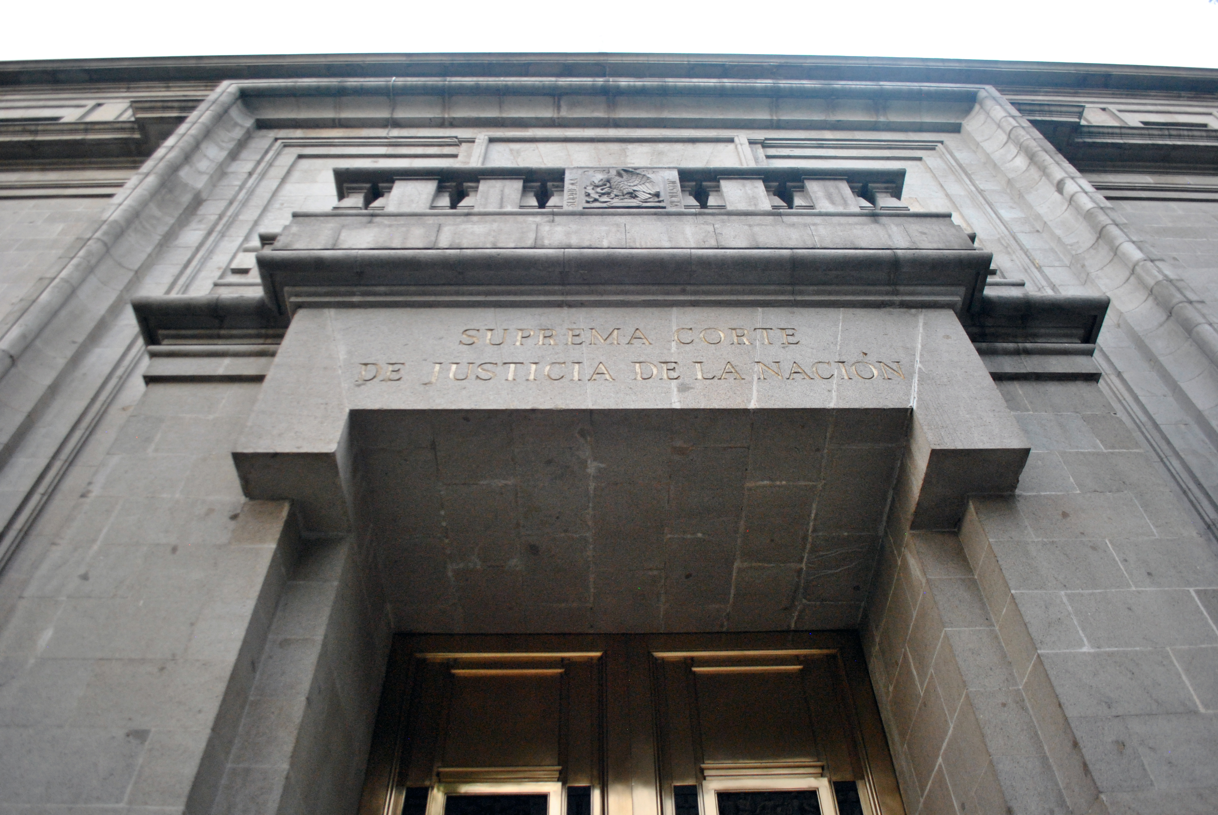 Frontispiece of the Supreme Court, Mexico City.